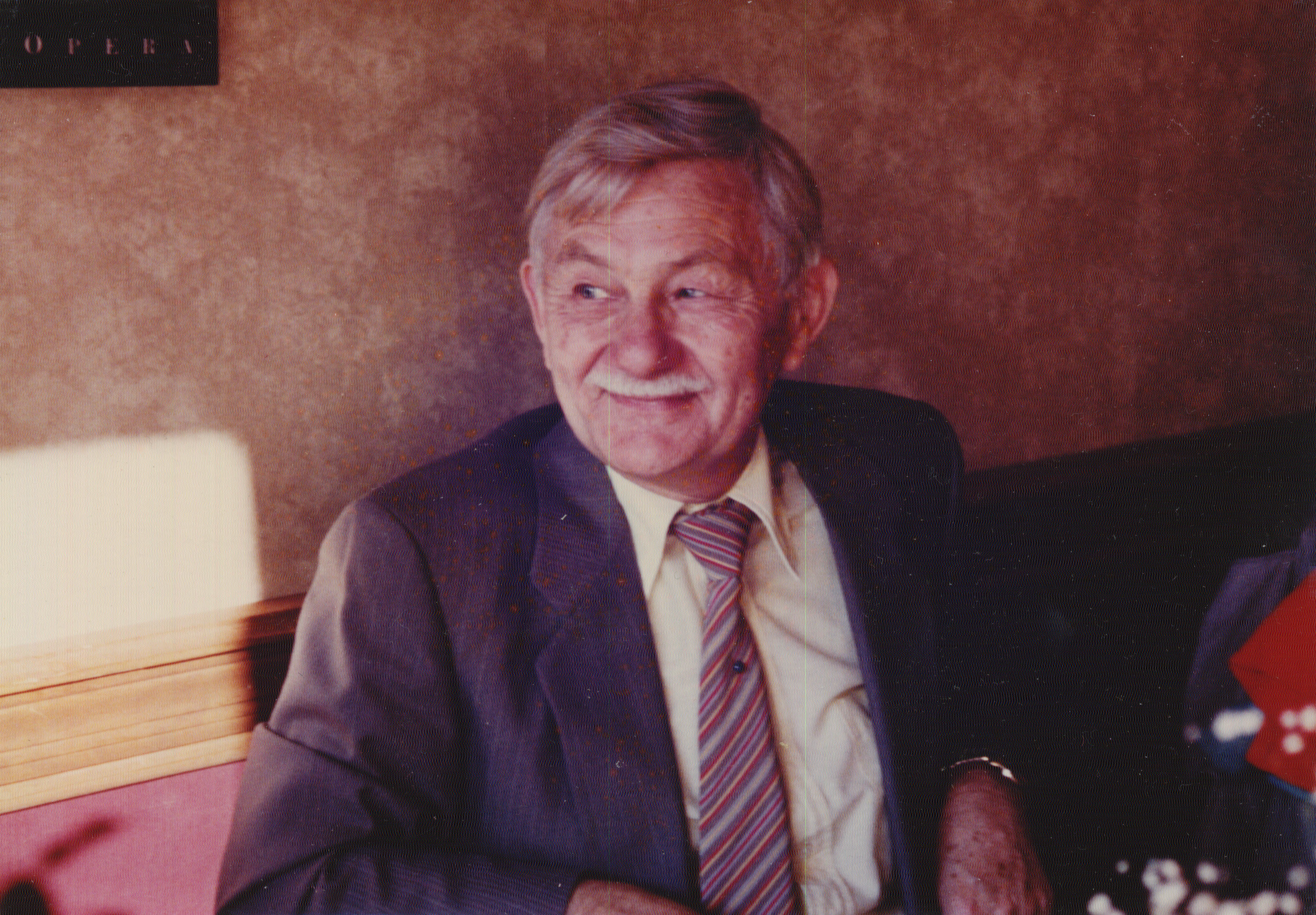 Taken at the baby shower for his first grandchild.